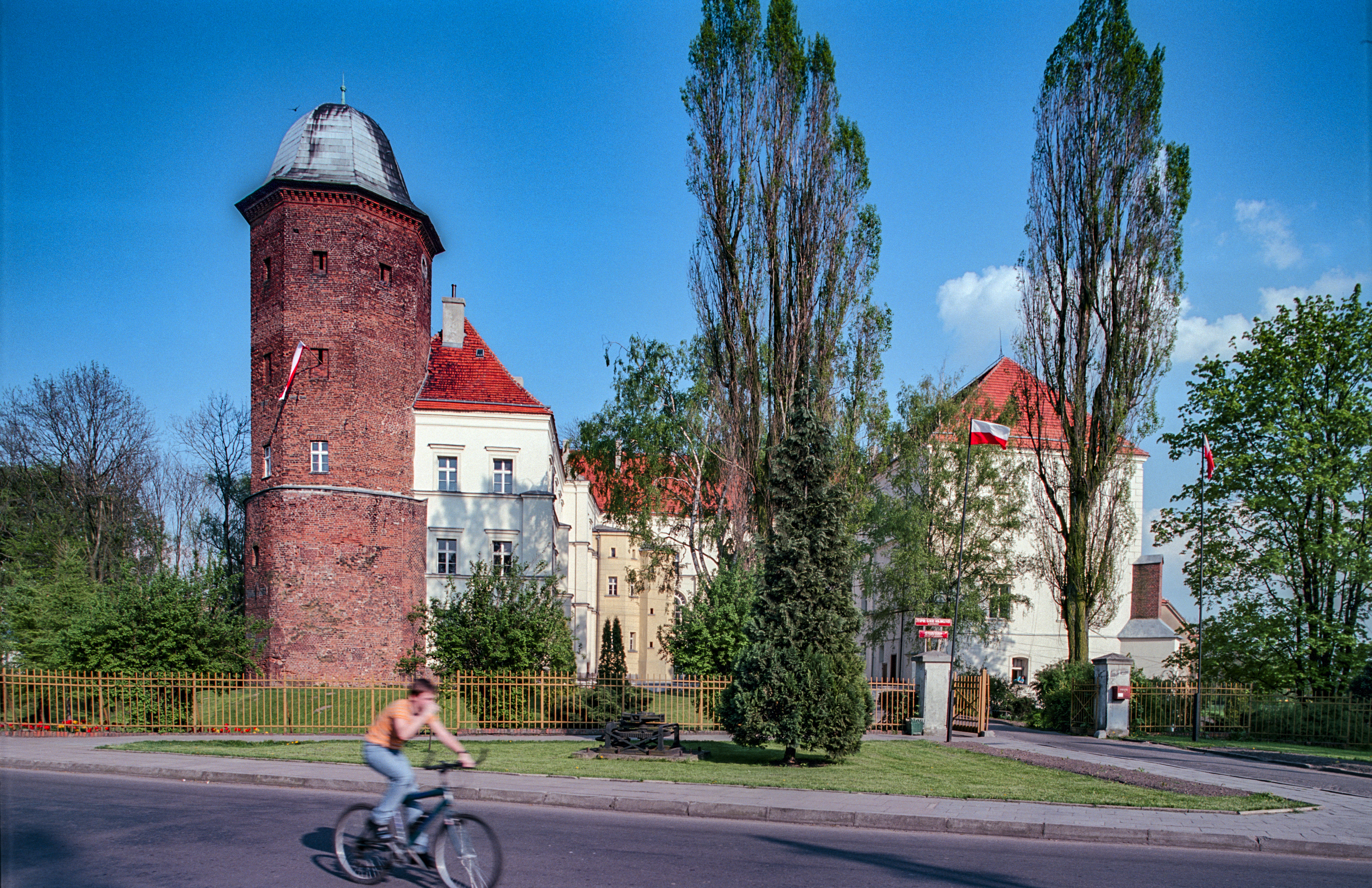 Castle in Koźmin Wielkopolski